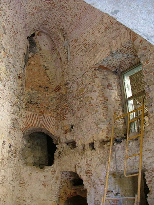 Escavações realizadas entre 2004 e 2005